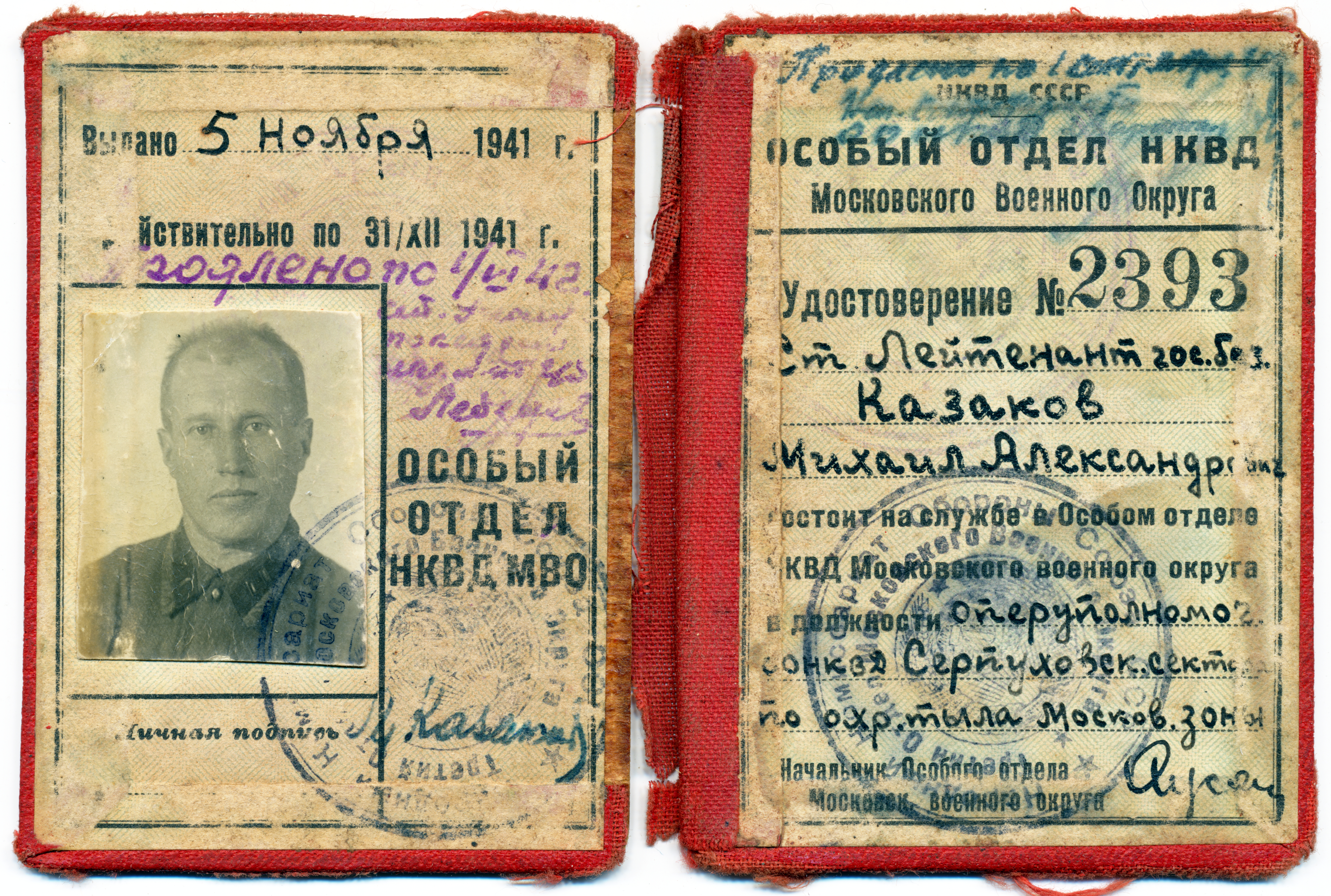 Special Department ID belonging to state security senior Lieutenant Mikhail Alexandrovich Kazakov from Moscow Military District, 1941-1942.